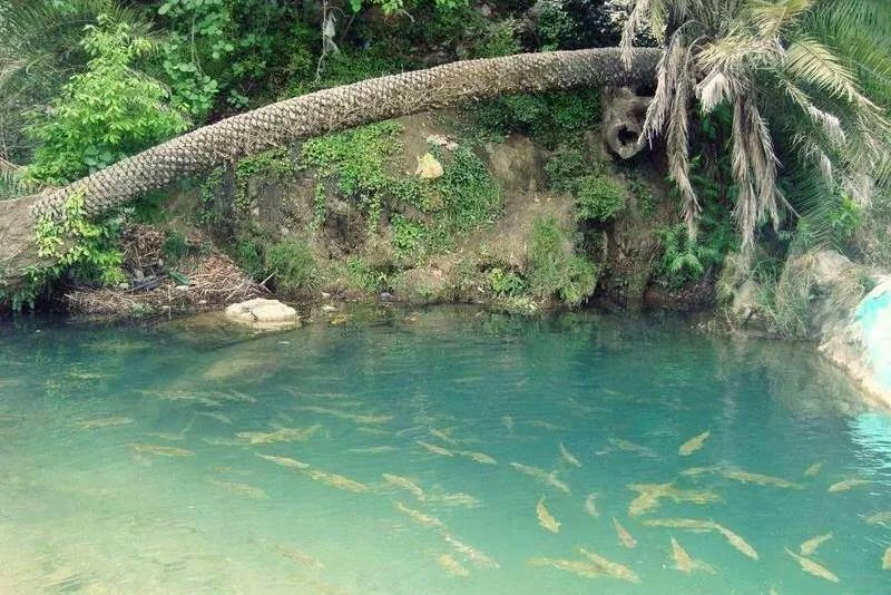 fish in neela boto